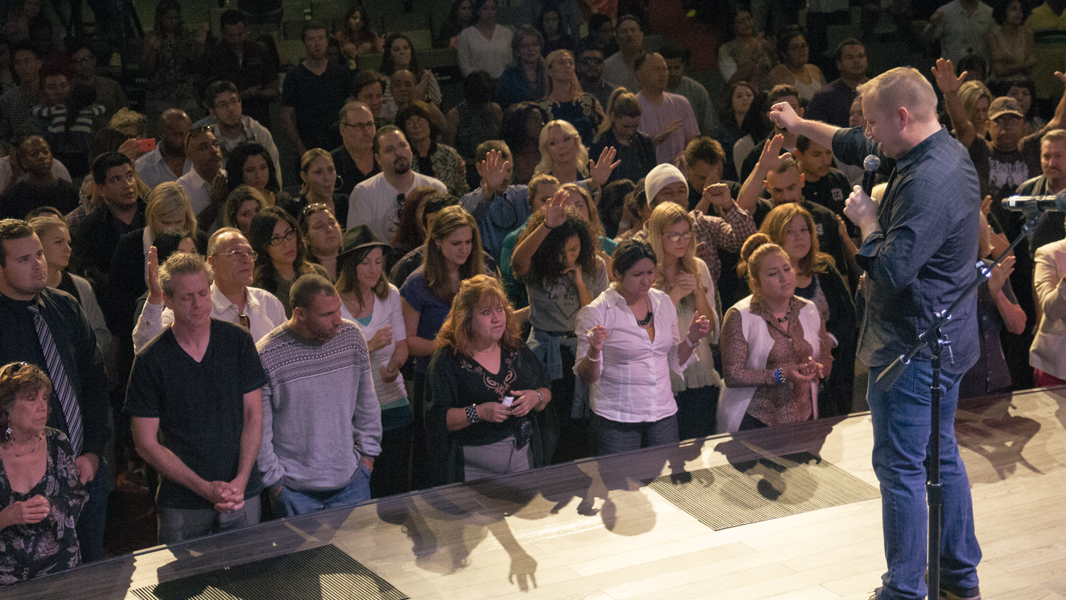 Matthew Barnett speaking at Angelus Temple.